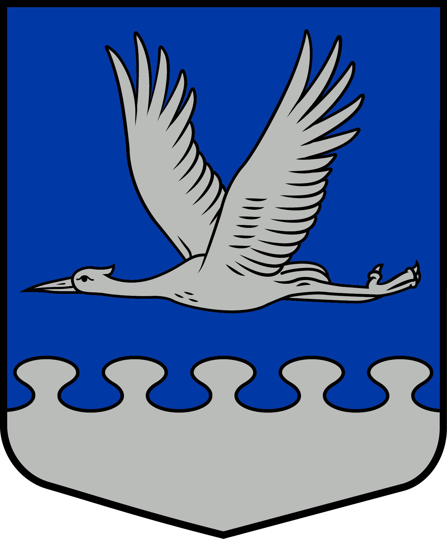 Granted 27 June 2018.